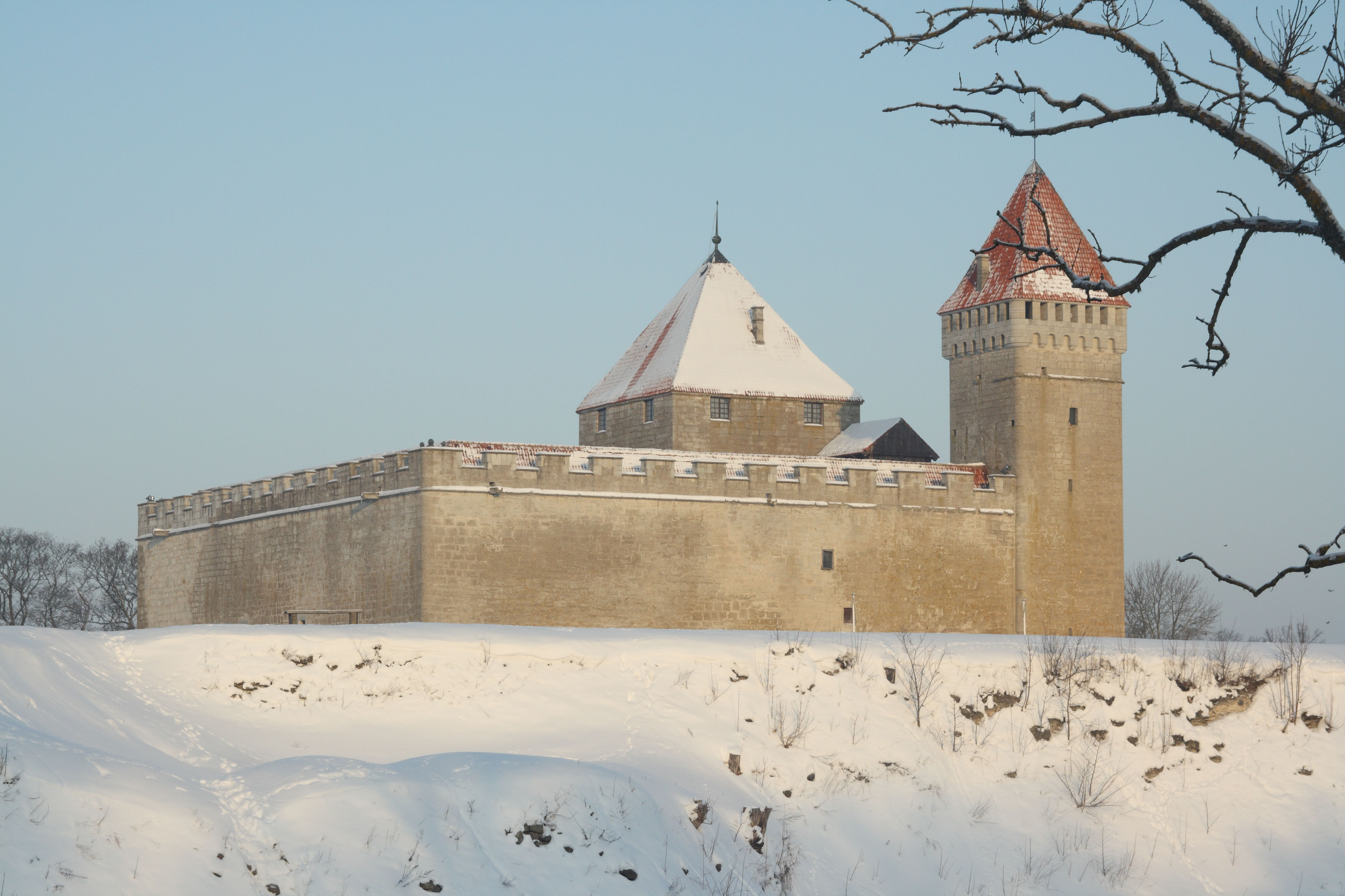 Kuressaare Castle